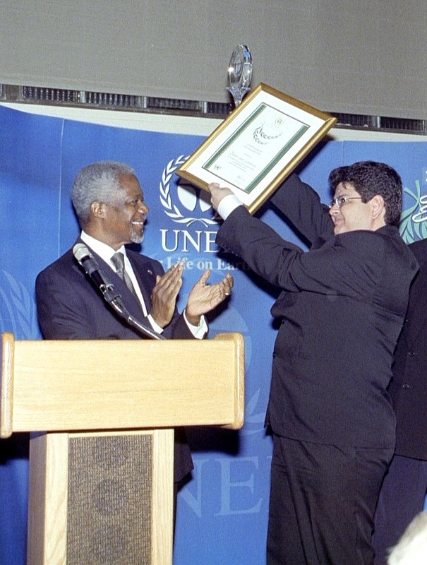 Dener Giovanini recebe das mãos de Kofi Annan, Secretário Geral da ONU, o Prêmio UNEP